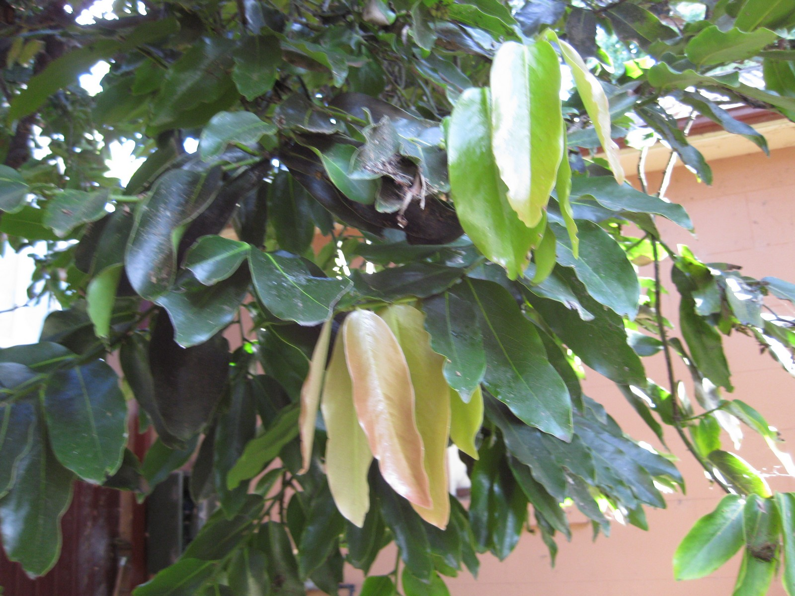 Photographed at the Royal Botanic Gardens Sydney (Australia) in December